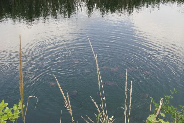 Mayrompara Lake, located 3km east of Polychrono at Chalkidiki